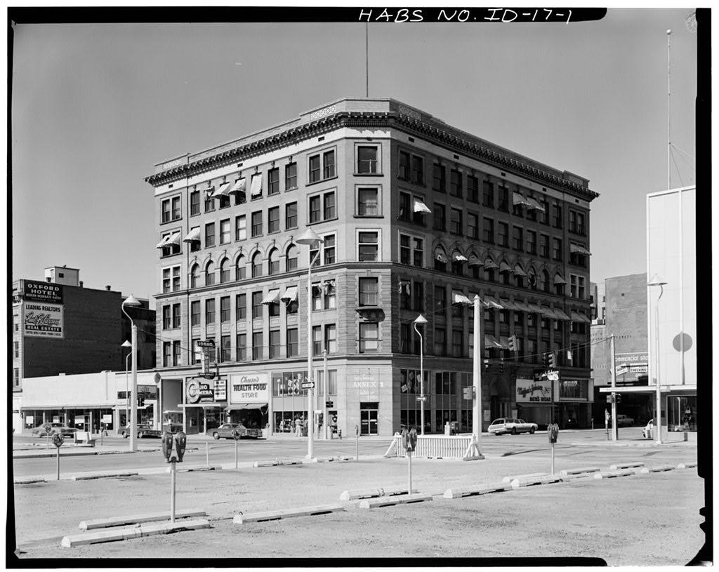 Overland Building, Boise, Idaho. Formerly Listed on the National Register of Historic Places. HABS image.